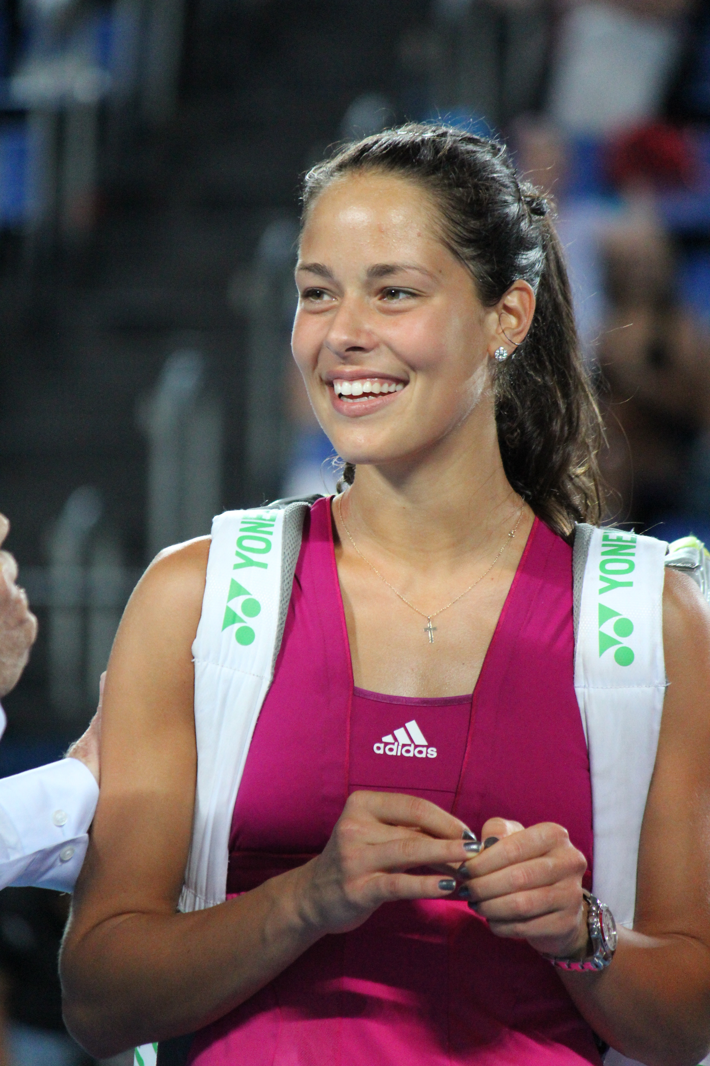 Ana Ivanovic interviewed after winning the mixed double match at 2011 Hyundai Hopman Cup 2011.